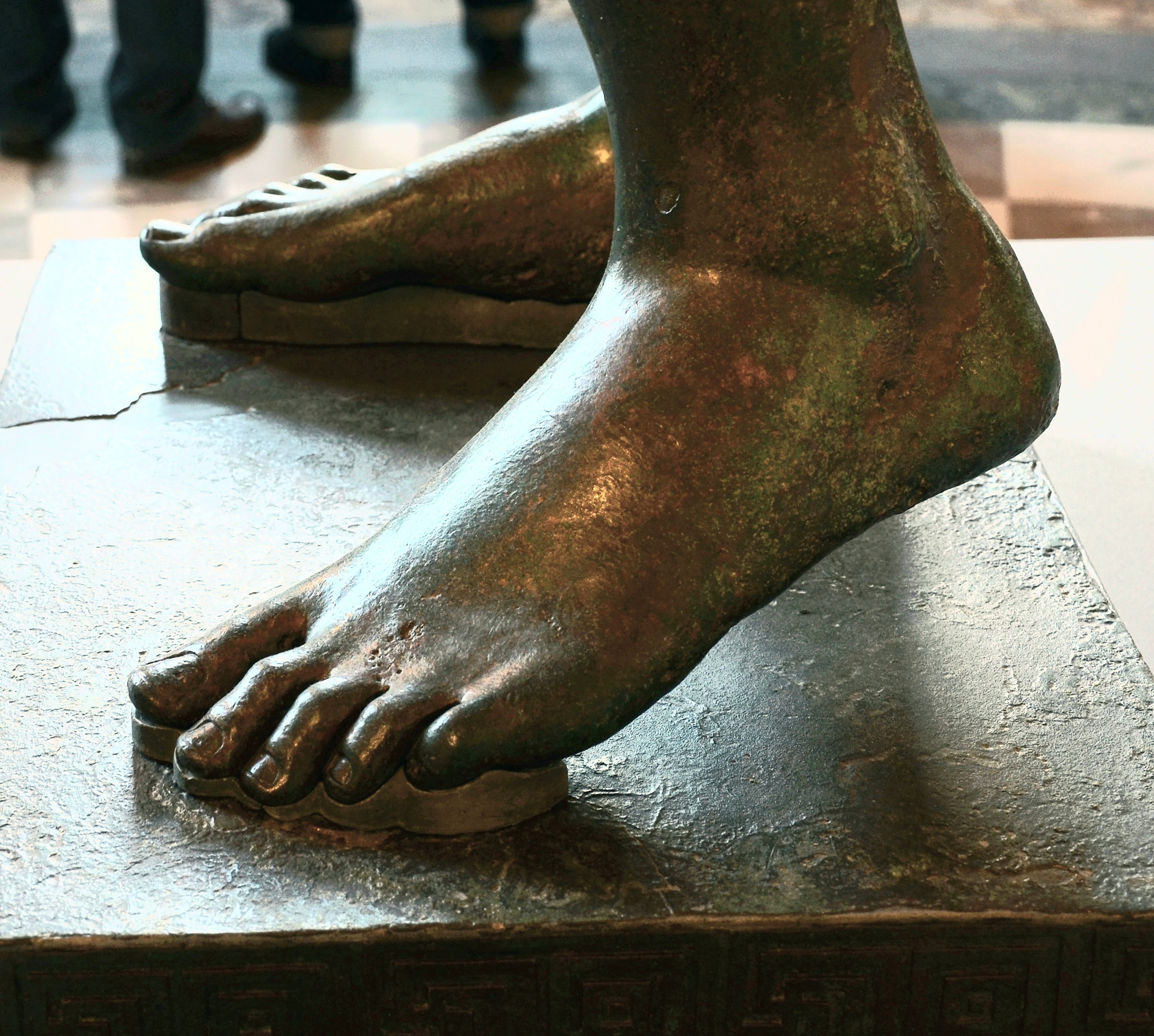 The Croatian Apoxyomenos. Photograph taken during the temporary exhibition of the statue in the Louvre, in Paris.